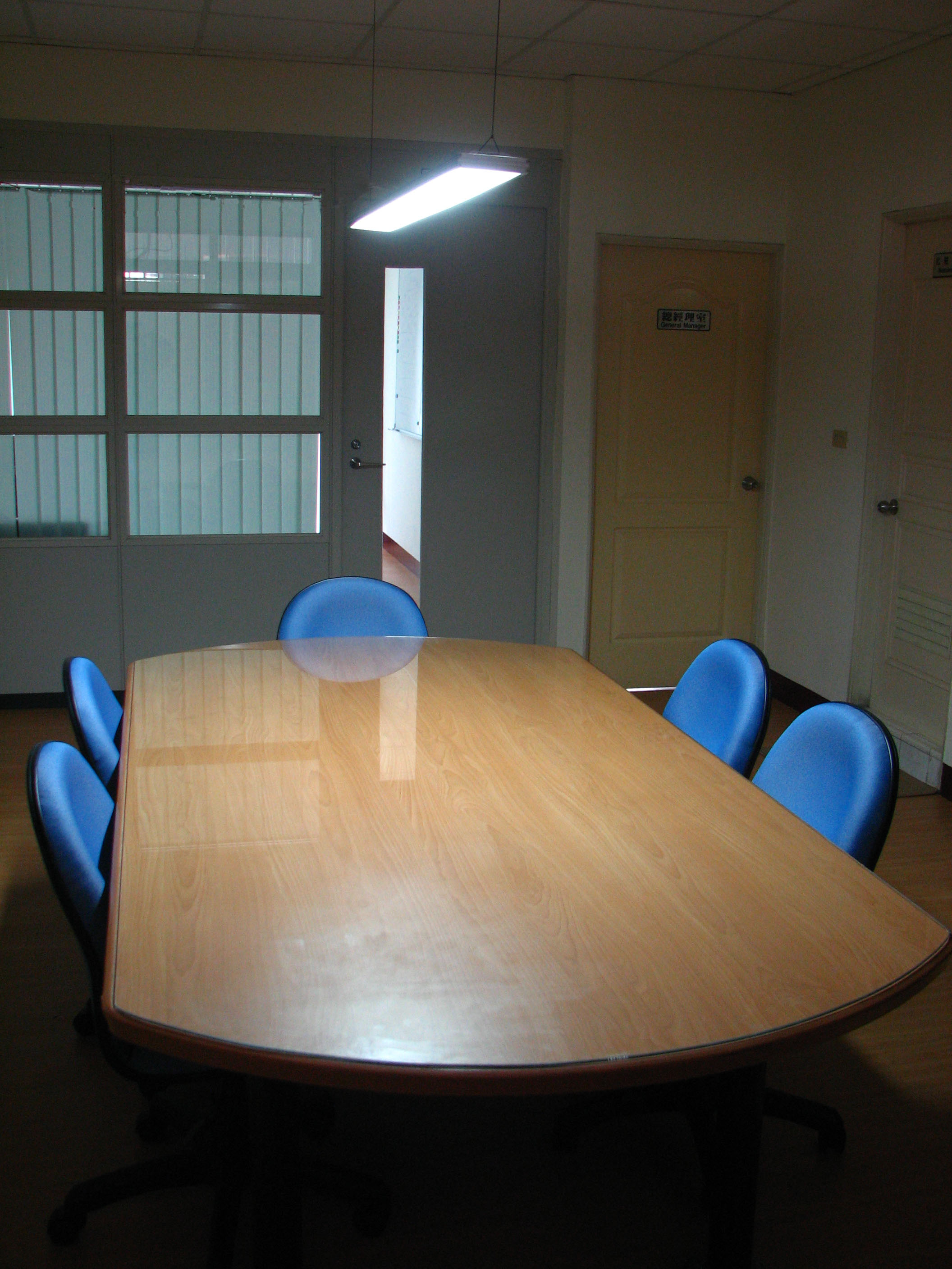 LED Droplight or height adjustable pendant light; can reduce unnecessary light pollution and save energy by "dropping" the light source to the object so the distance between them nearer.